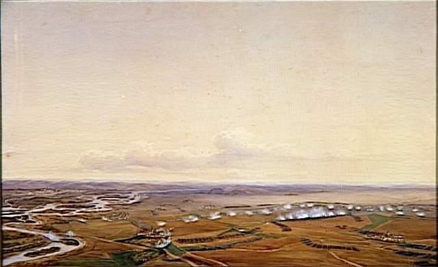 The painting depicts the situation at the battle of Wagram, on the 6th of July, at around 10 AM. The Austrians had pushed back the French left, but then could not continue beyond.